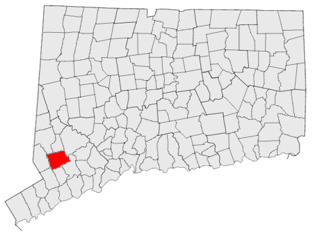 Locator map for Redding, Connecticut